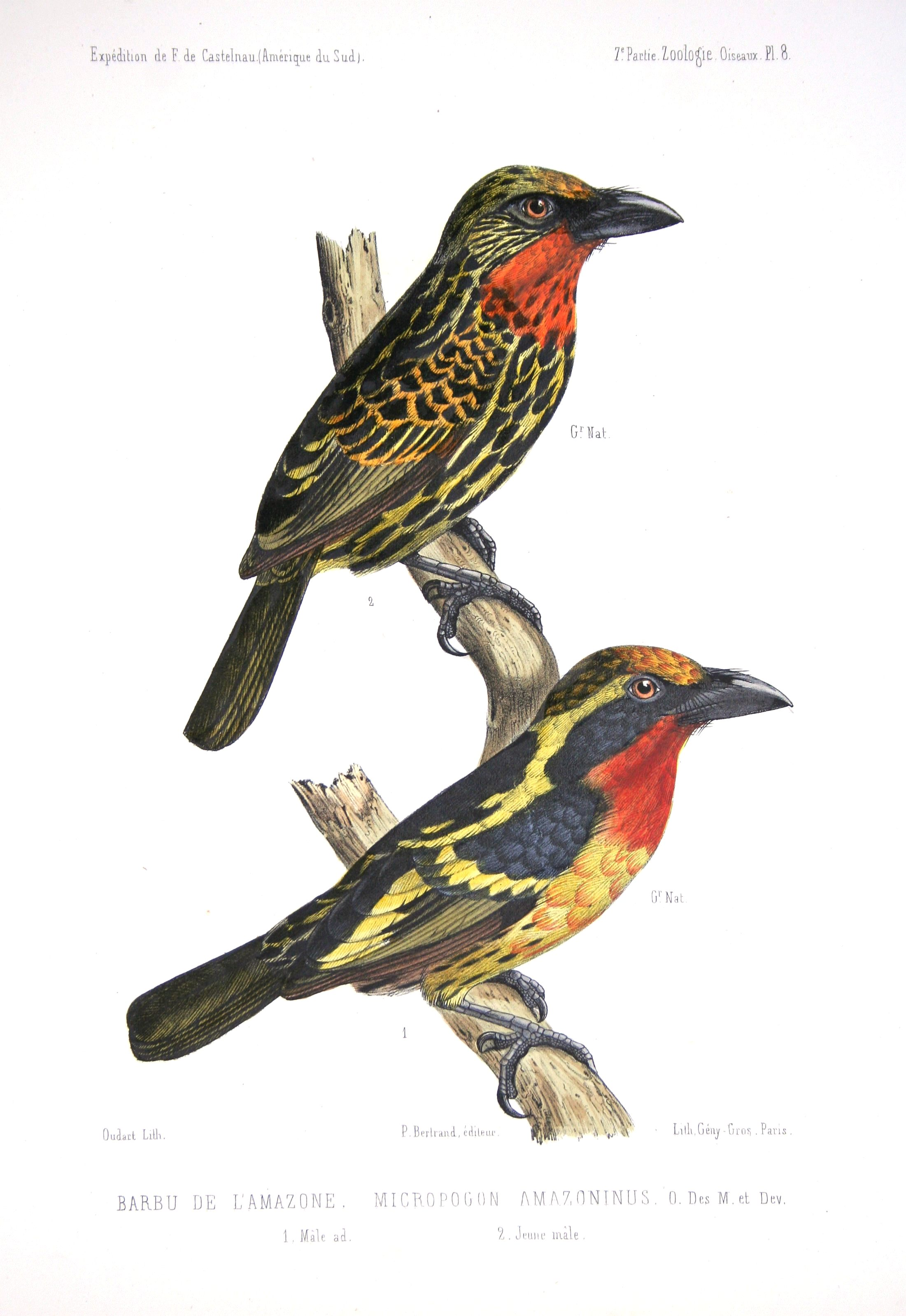 Gilded Barbet